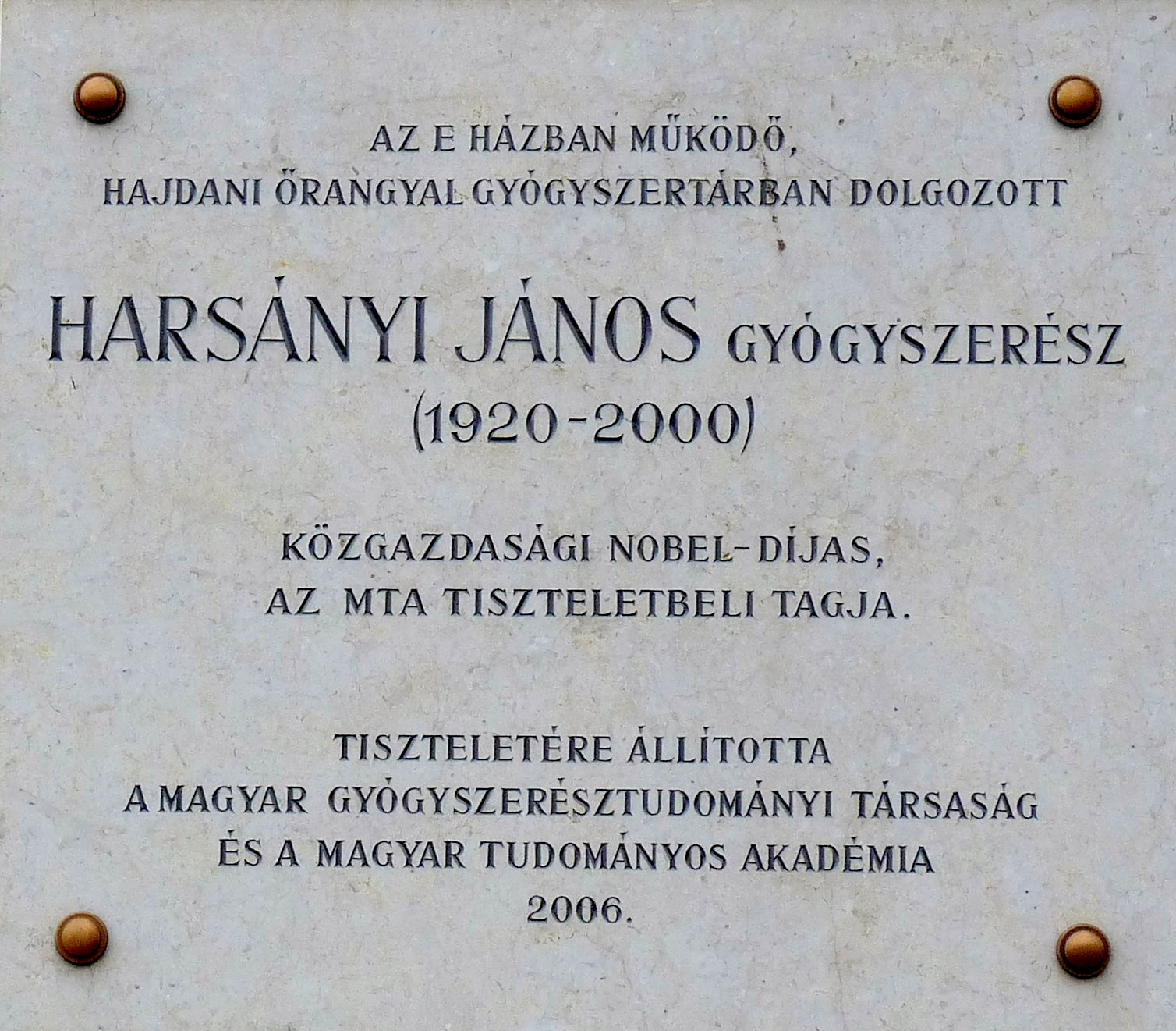 Commemorative plaque to Mr. John Harsany (1920–2000), Hungarian-born chemist, Nobel laureate economist, placed on the wall of the former pharmacy ’Őrangyal’ (Guardian angel) where he worked as a pharmaceutical chemist. (Budapest, District XIV, Róna Street Nr 145).